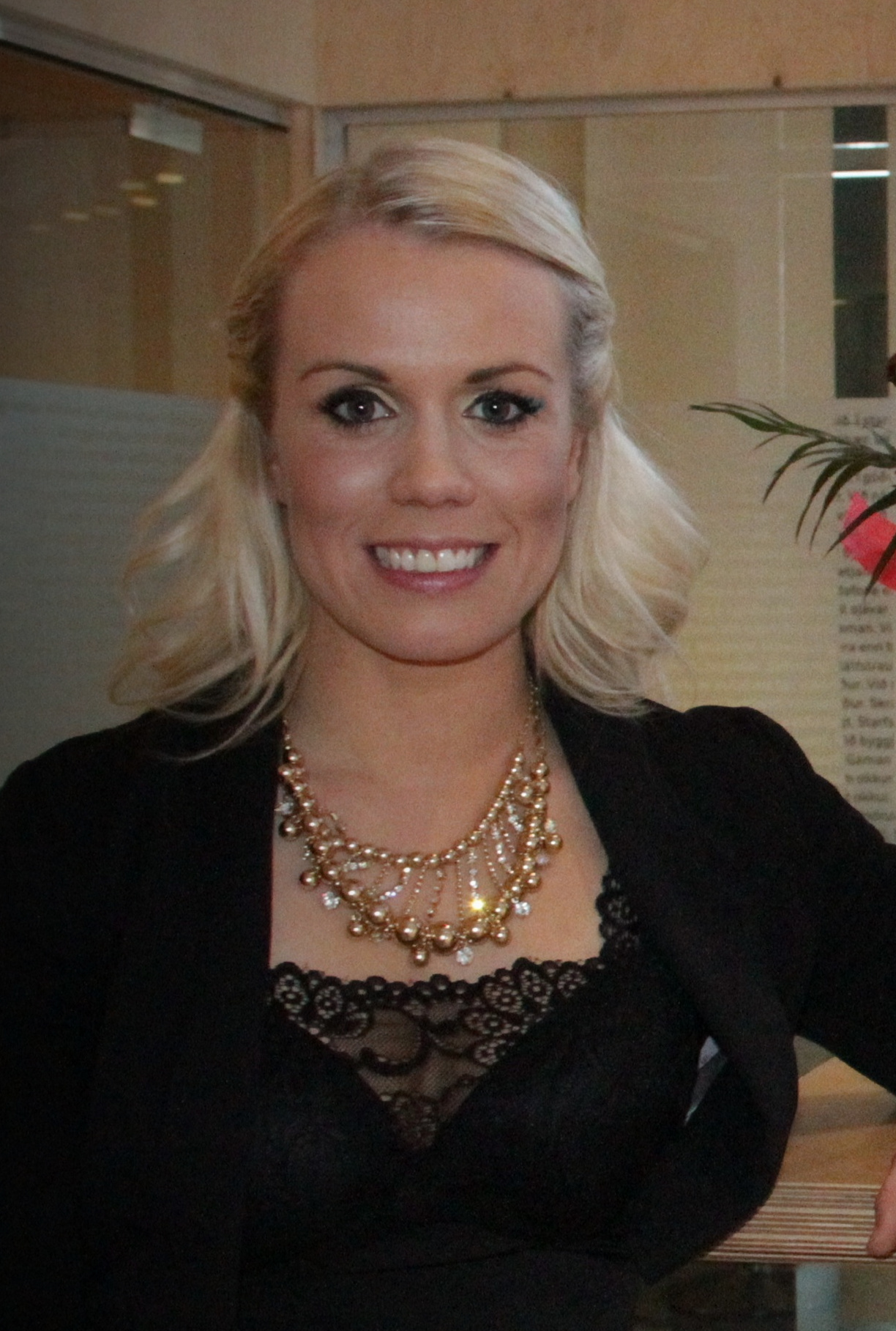 Greta Salóme & Jónsi will compete for Iceland in the Eurovision Song Contest 2012.